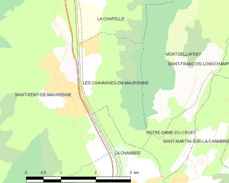 Map of French municipality